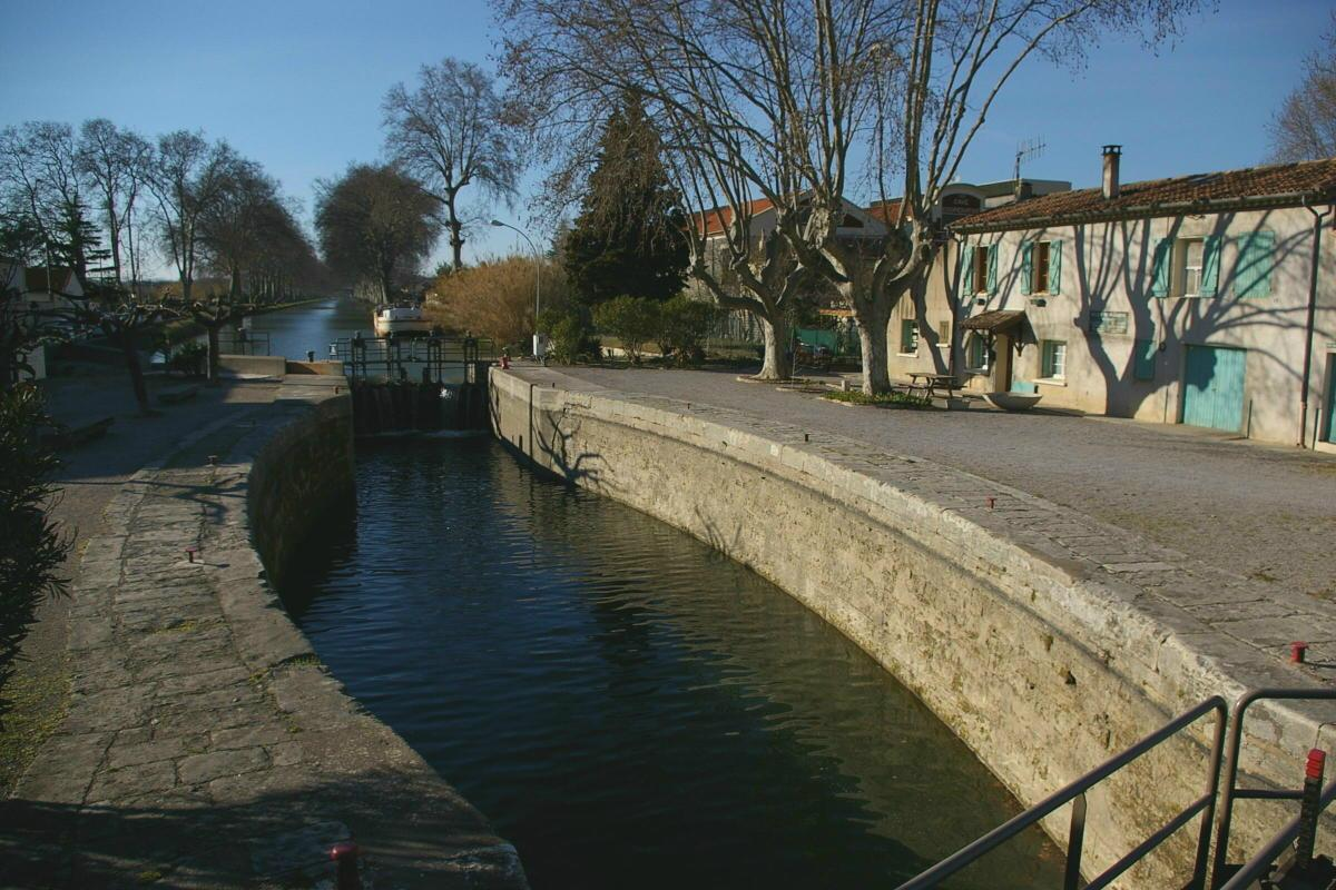 Villeneuve lock on the Canal du Midi, France